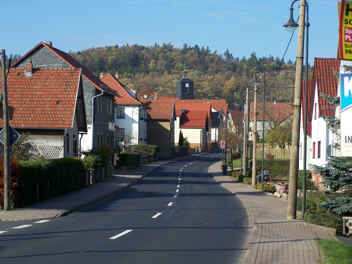 The mainstreet in Etterwinden.